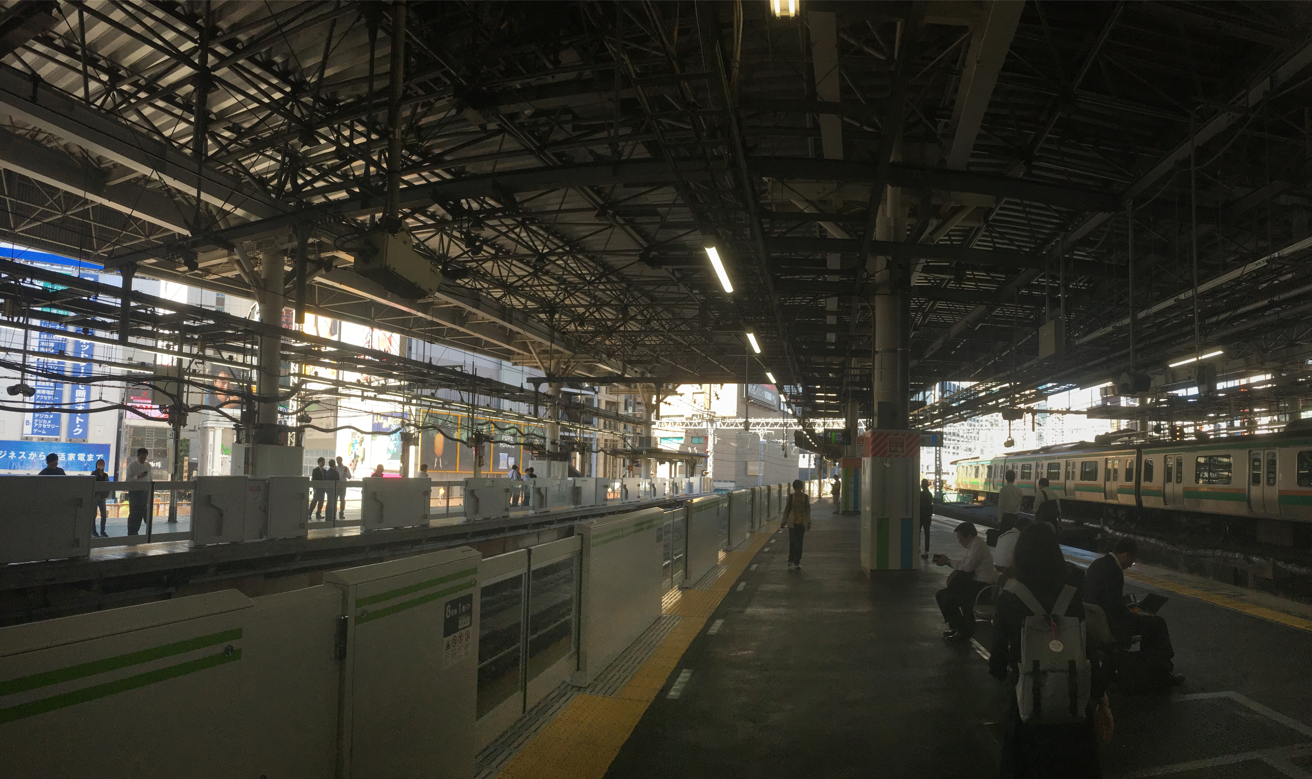 JR新橋駅のホーム (JR Shimbashi Station platforms)